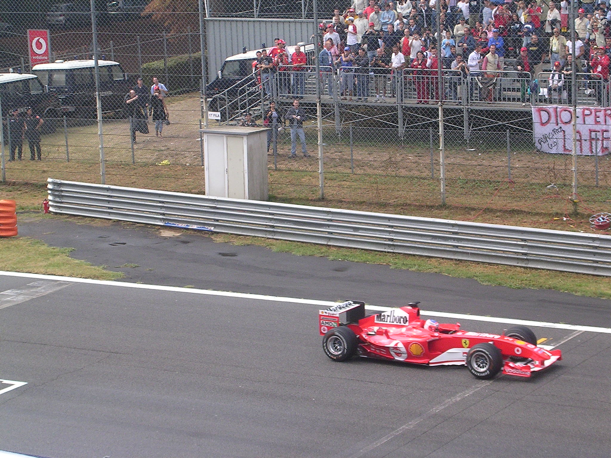 The Autrodomo Nazionale of Monza (italy) during a race in september 2004